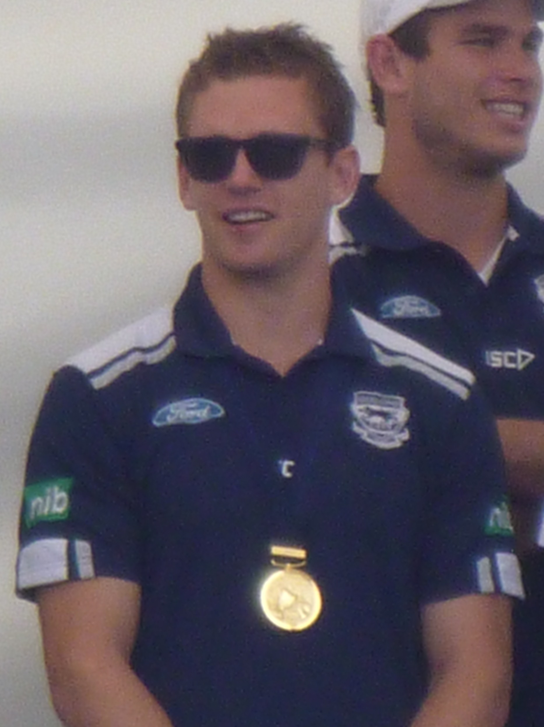 Joel Selwood at the Geelong Football Club's 2011 AFL Premiership victory parade in Geelong, Victoria, Australia.